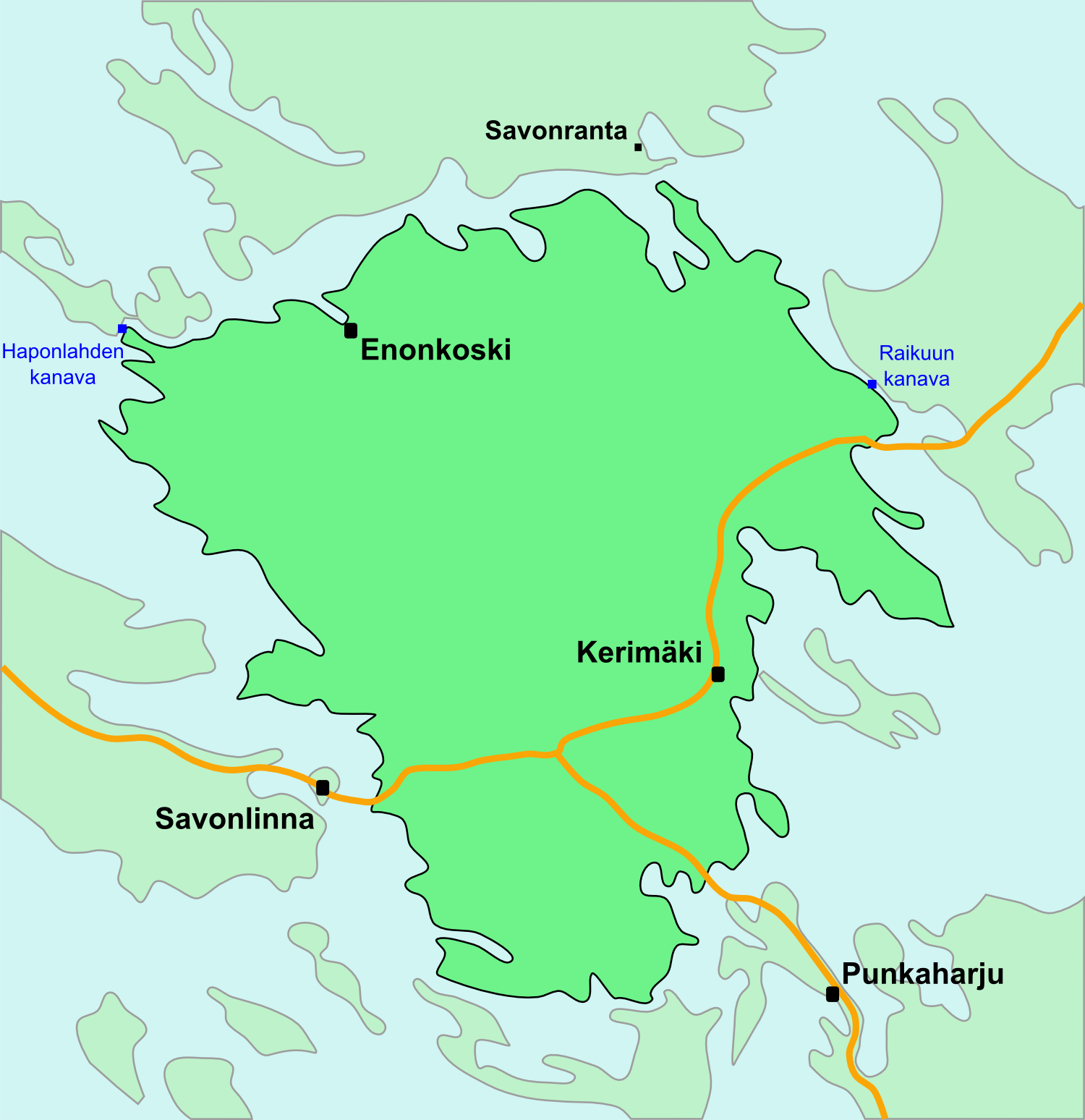 Thememap of Sääminginsalo island.